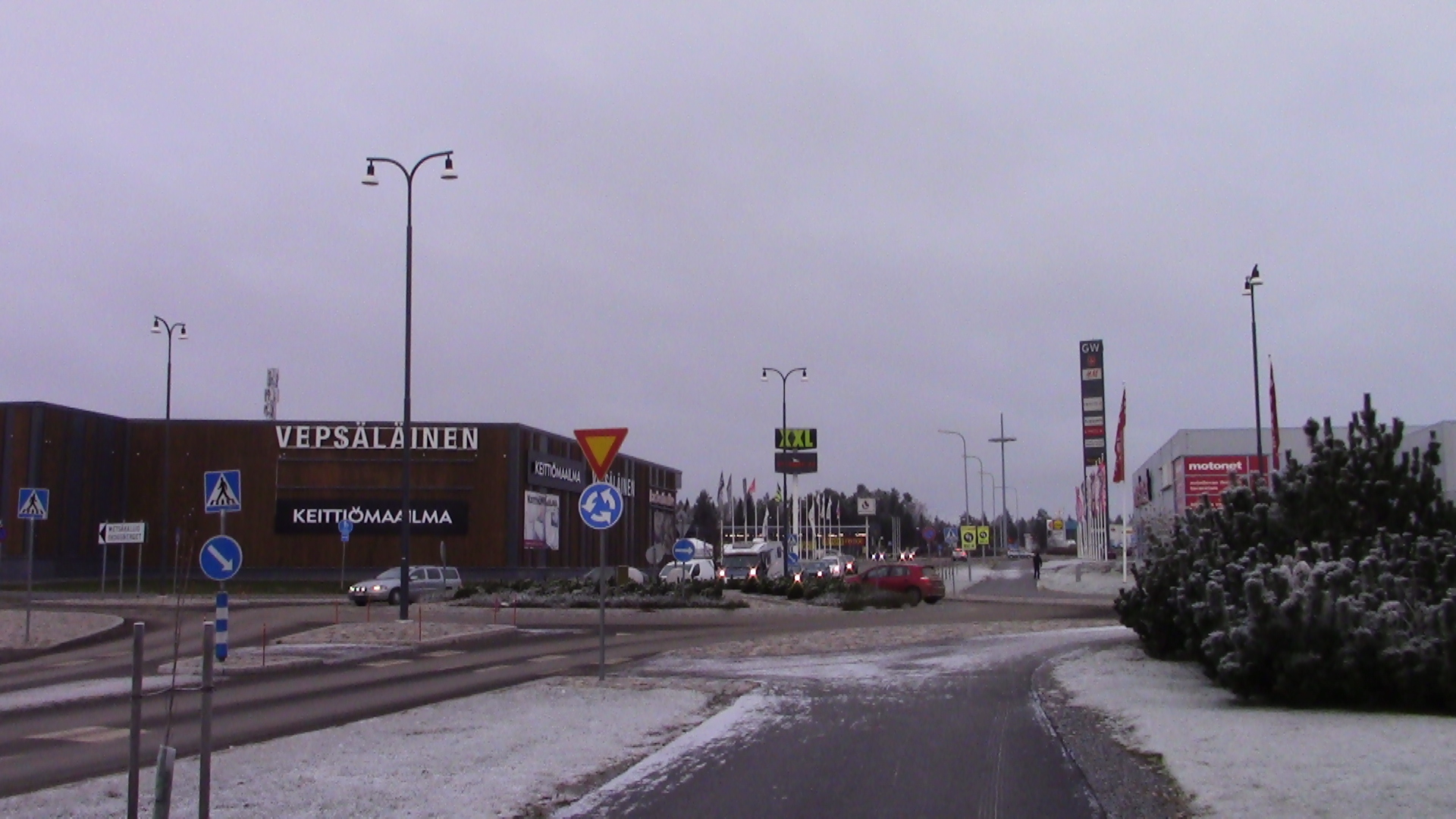 Kivihaka suburb in Vaasa, Finland. In the picture you can see the roundabout of Kivihaantie, Kokkokalliontie and Metsäkallionkatu roads.